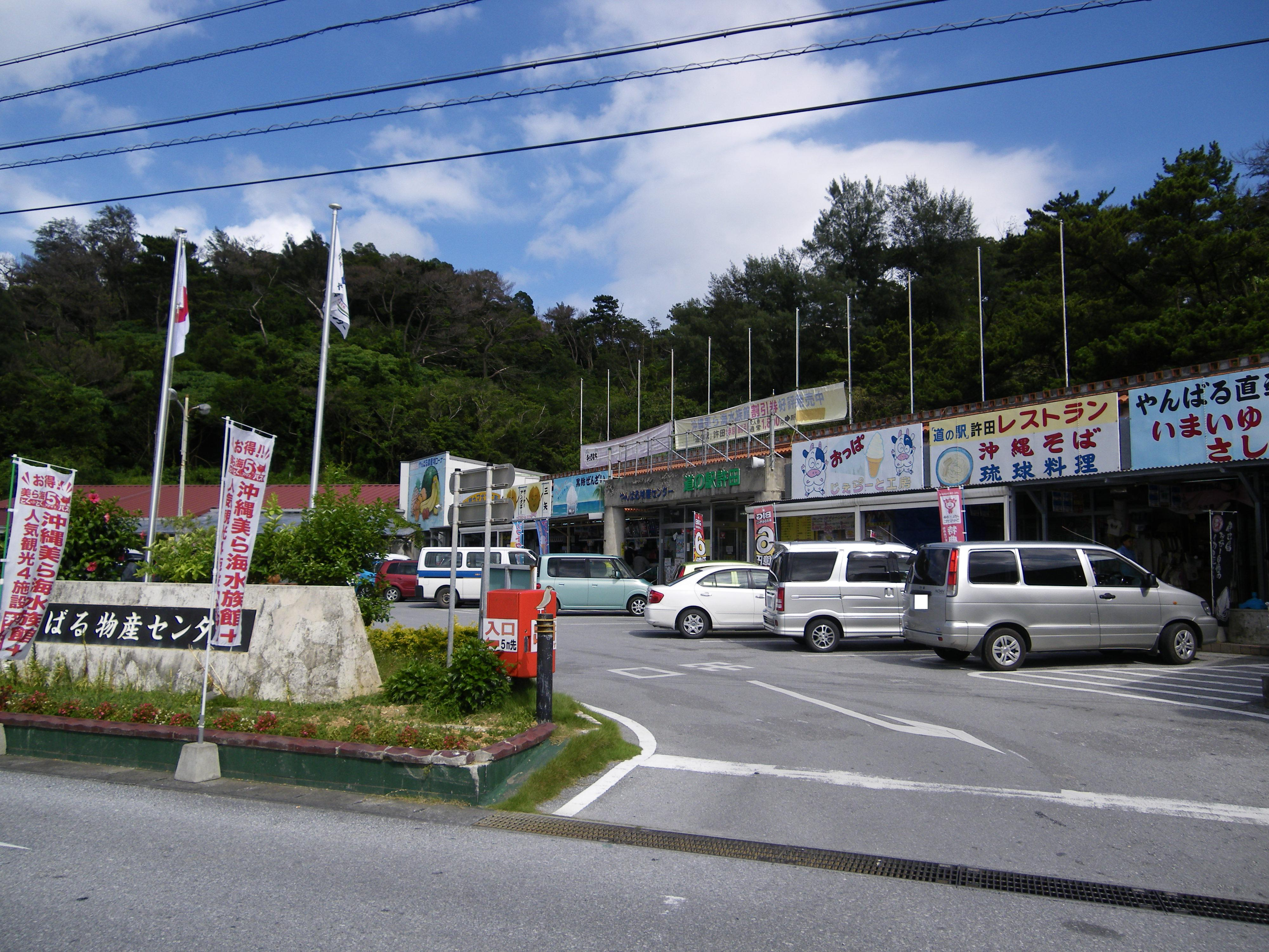 Yanbaru Bussan (Products) Center.